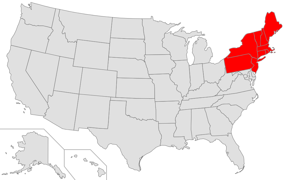 Map of United States created by Wapcaplet